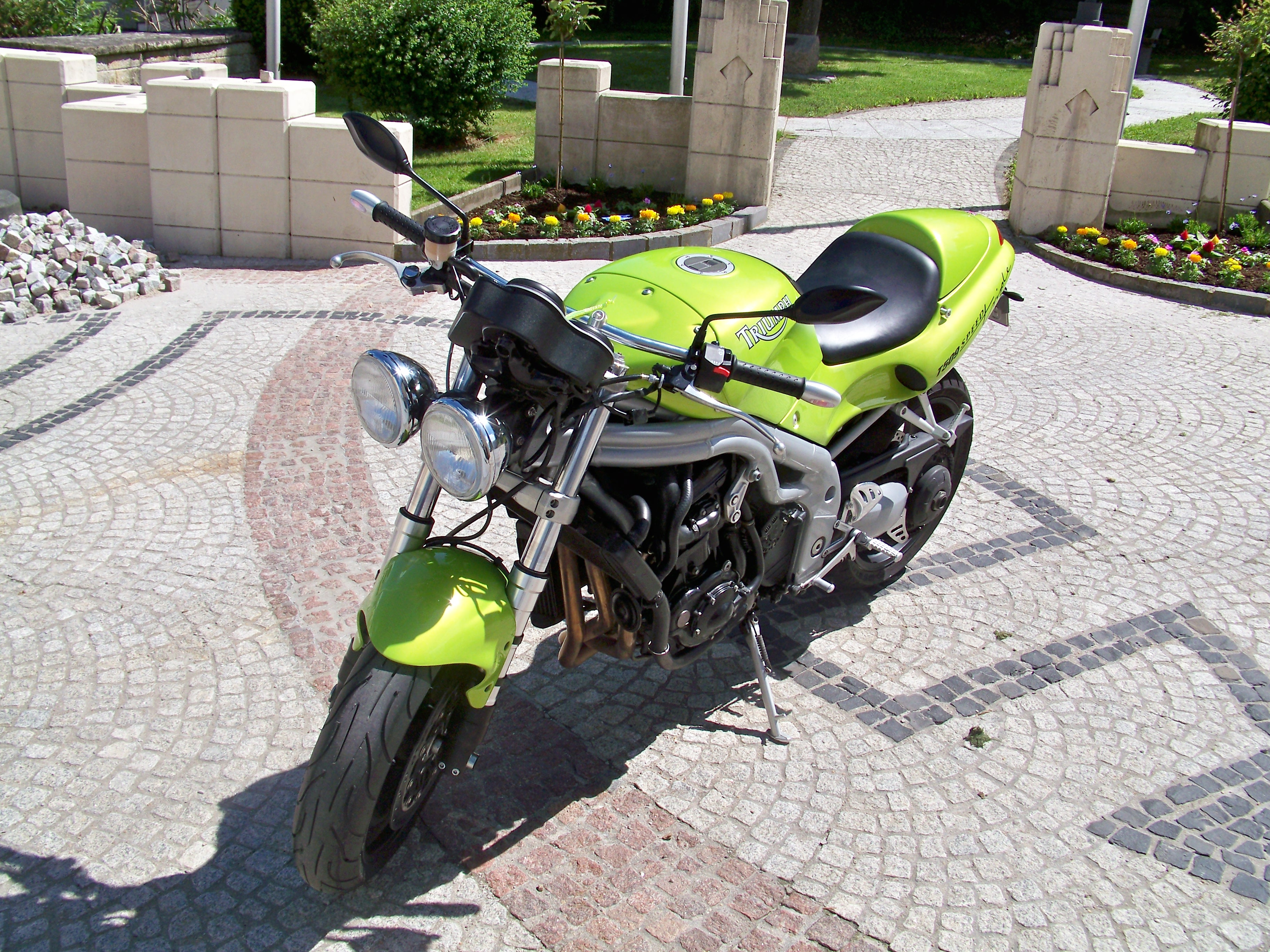 1998 Triumph T509 Speed Triple